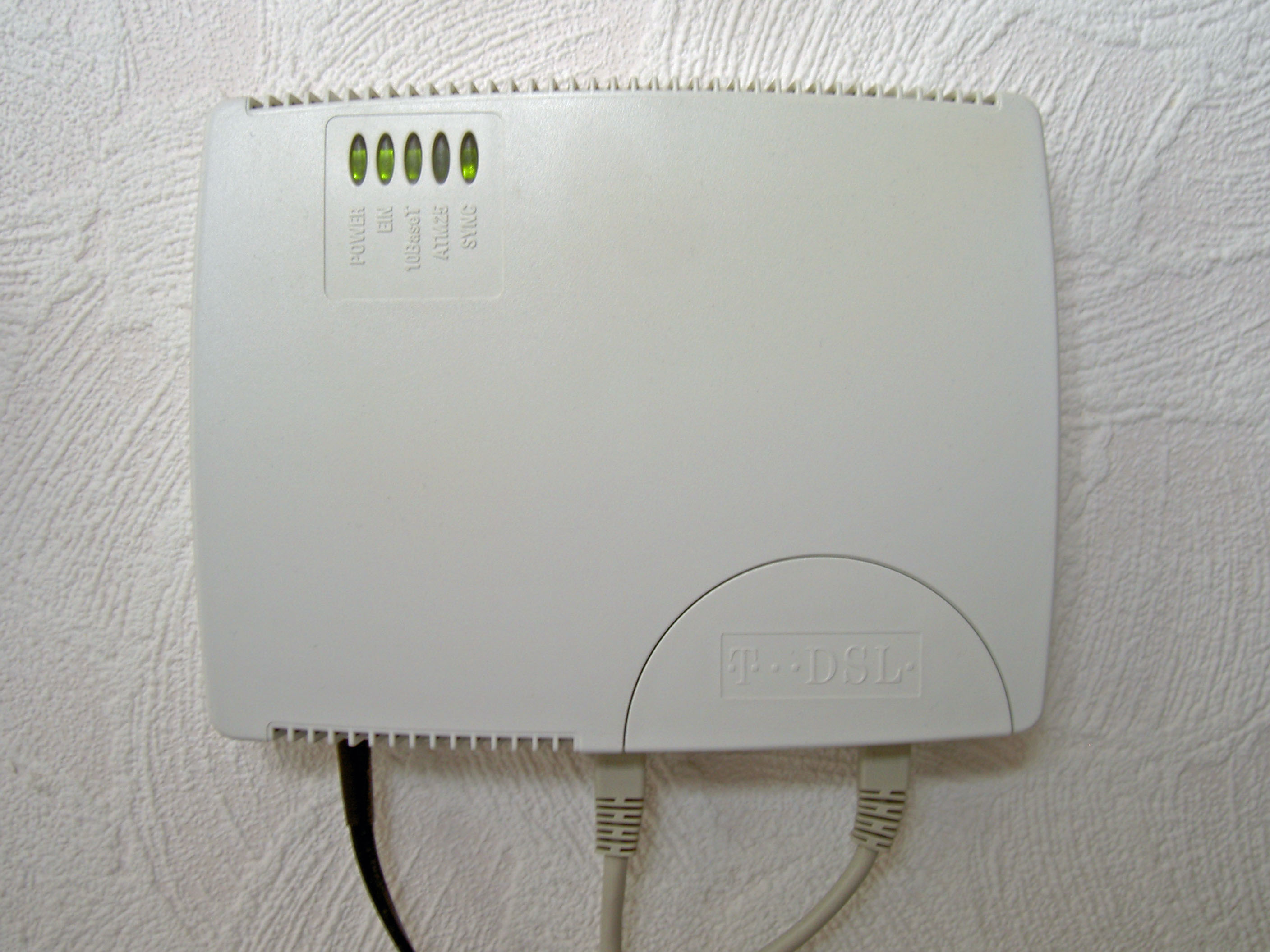 An ADSL modem.